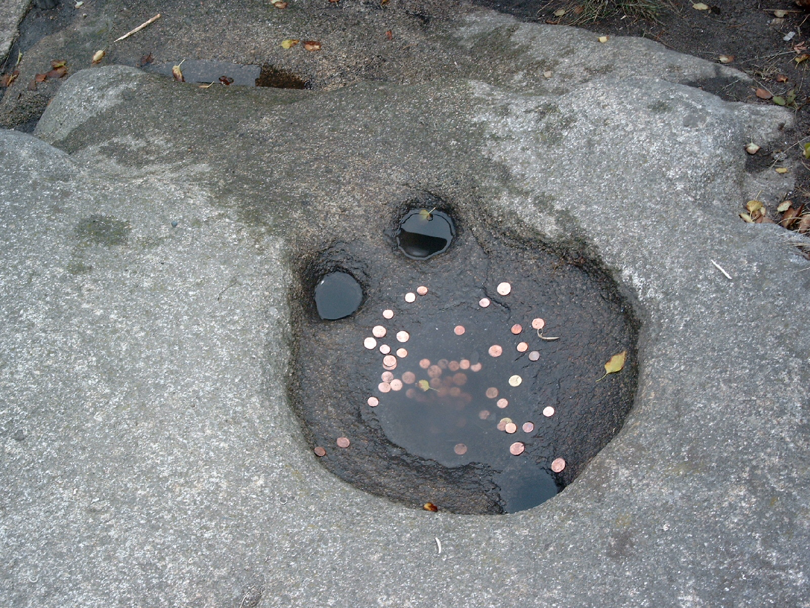 Rosstrappe wishing well, Saxony-Anhalt, Germany